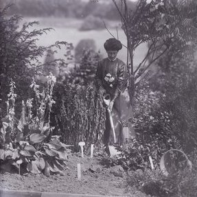 Vida Goldstein planting - This picture is from a damaged plate taken by Colonel Linley Blathwayt and was stored on glass negatives. The Blathwayt's home of Eagle House way the home of Linley, Emily, William and Mary Blathwayt who all actively supported the suffragette cause. Nearly all the prominent UK suffragettes stayed with them and these photos and dozens of trees were planted to commemorate their visits. Col. Linley Blathwayt took these pictures between 1908 and 1912. He died in 1919.